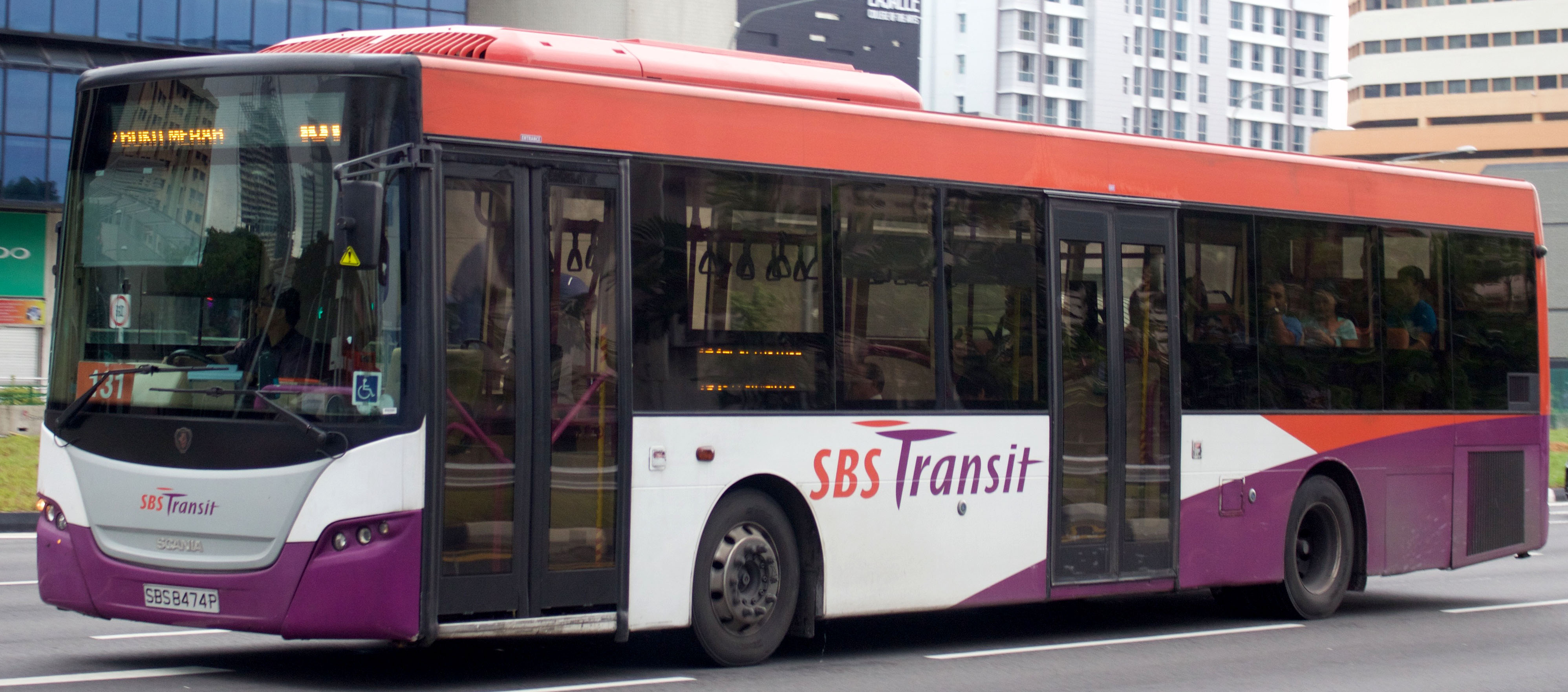 2008 Scania K230UB (Gemilang Coachworks), SBS Transit. Photographed in Singapore.